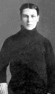 Canadian ice hockey player Roy Brown of the Canadian Soo club in the IPHL